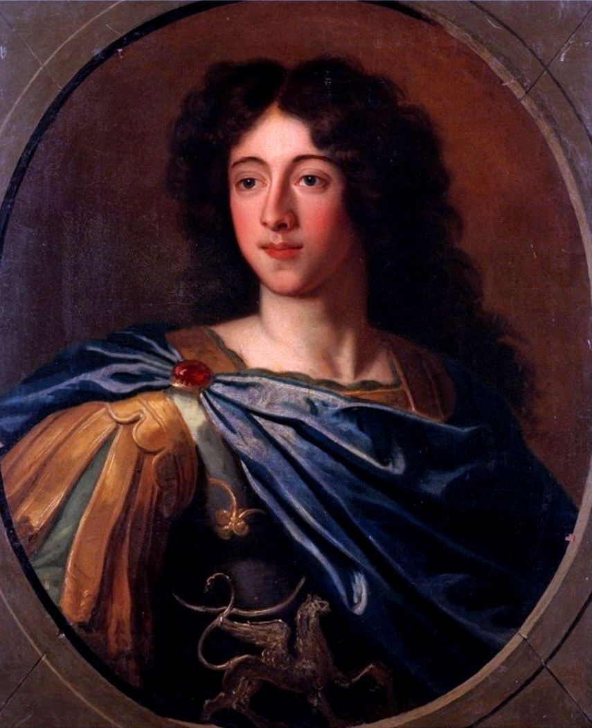 Portrait of François Louis, Prince of Conti (1664-1709)